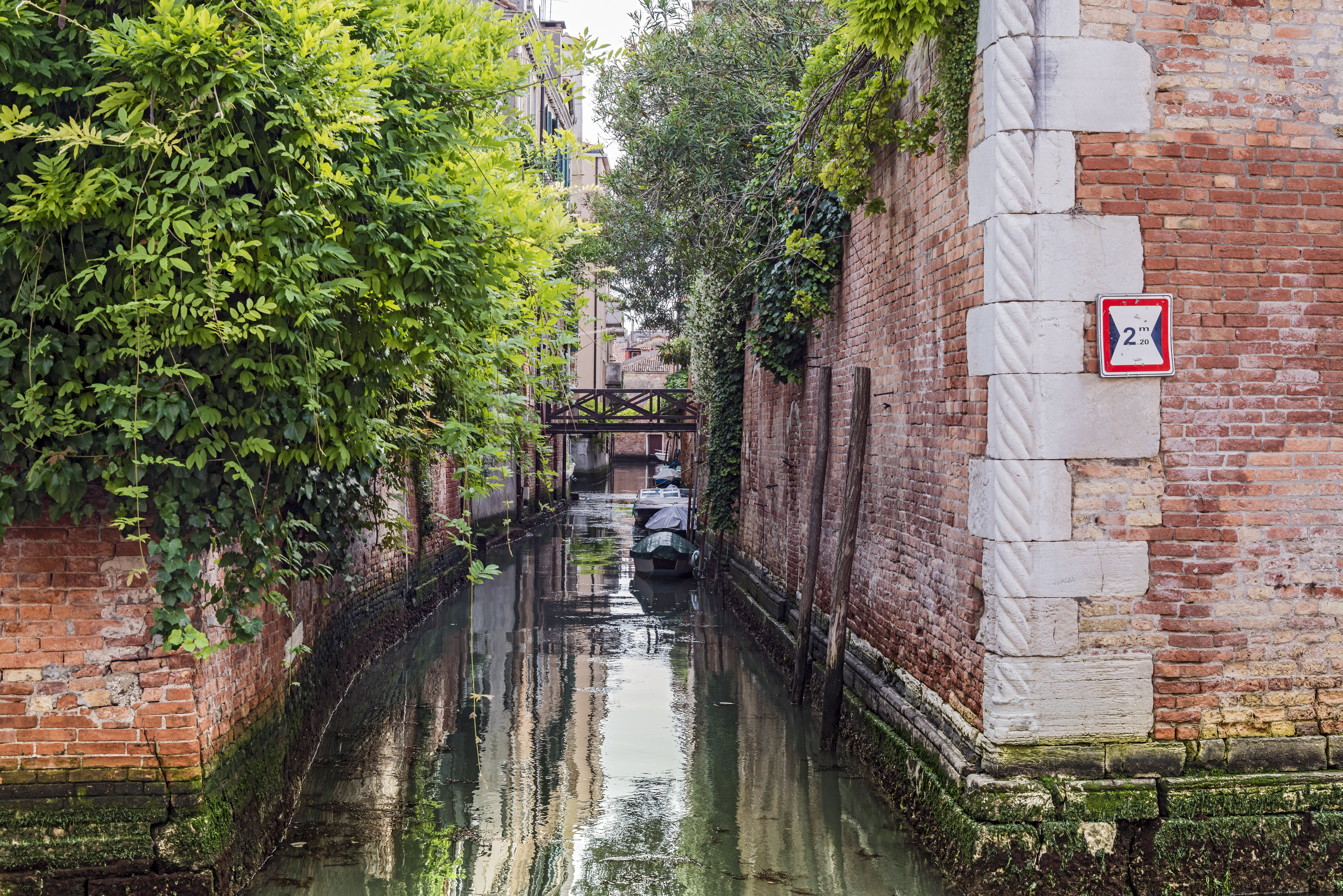 Rio de la Racheta seen entirely from the fondamenta Santa Caterina in Venice.